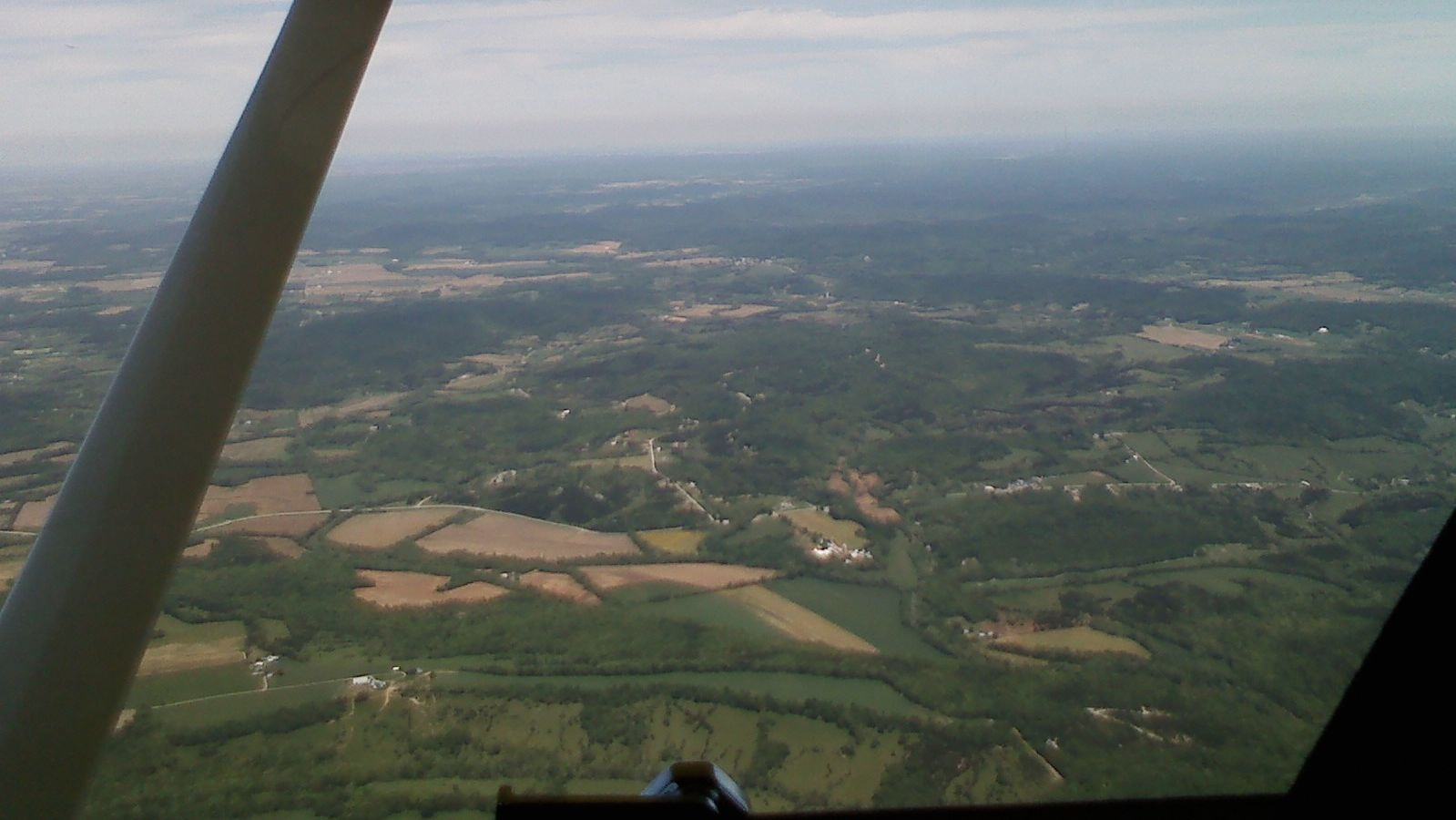 Serpent Mound Crater aerial photograph. Erosion and glacial activity have largely removed surface traces however the rim and raised center are largely tree covered with much of the valley farmland.